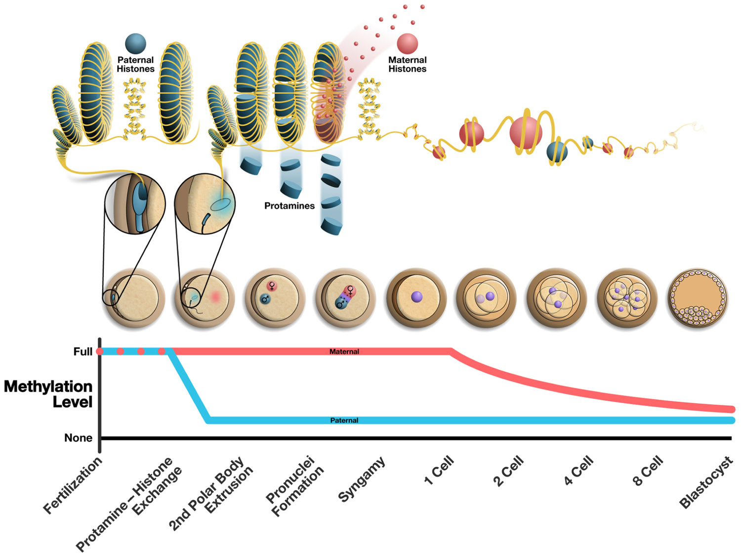 The top panel illustrates the chromatin structure of the mature sperm immediately following fertilization (highly protaminated with some retension of paternally derived histones). From the following cell is seen the protamine to histone transition where maternally derived histones replace protamines resulting in the decondensation of the sperm head. The middle panel illustrates the various stages of early embryonic development. The bottom panel shows the methylation changes that occur over time in the maternal and paternal pronucleus, where the paternal pronucleus undergoes active demethylation and the maternal DNA is demethylated passively in a replication dependent manner. The approximate chronology of major events in the early embryo is outlined along the bottom of the figure and correlates to the illustrations of embryos above. (text from article)